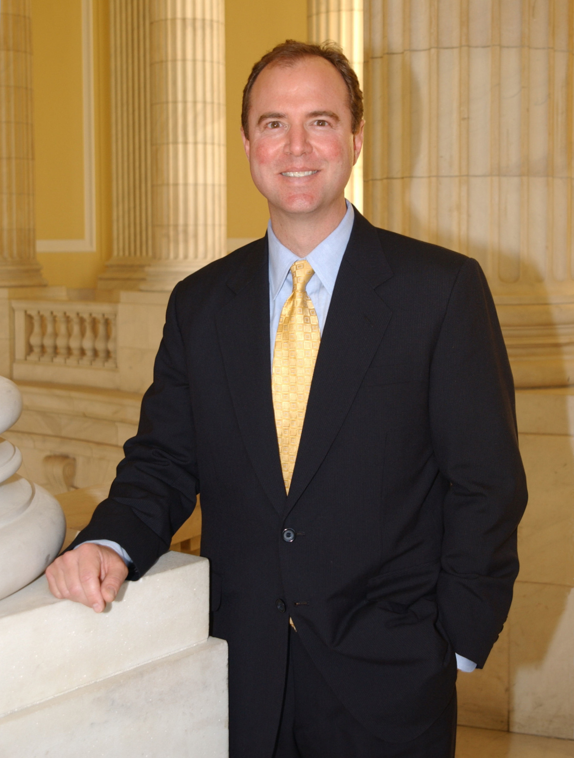 Adam Schiff's official photo